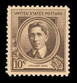 US stamp honoring Ethelbert Nevin